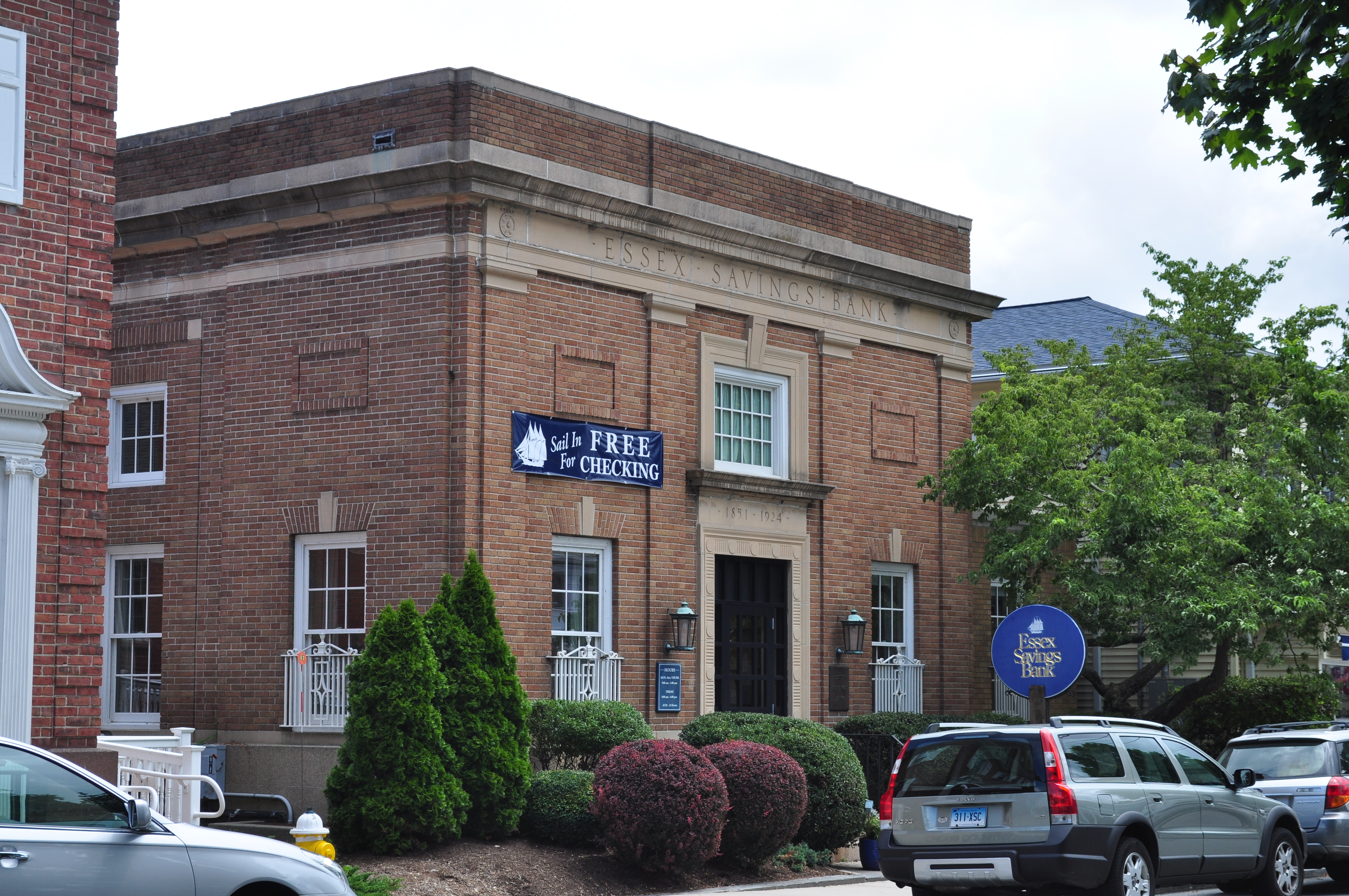 Essex Savings Bank, Main Street Essex, Connecticut.